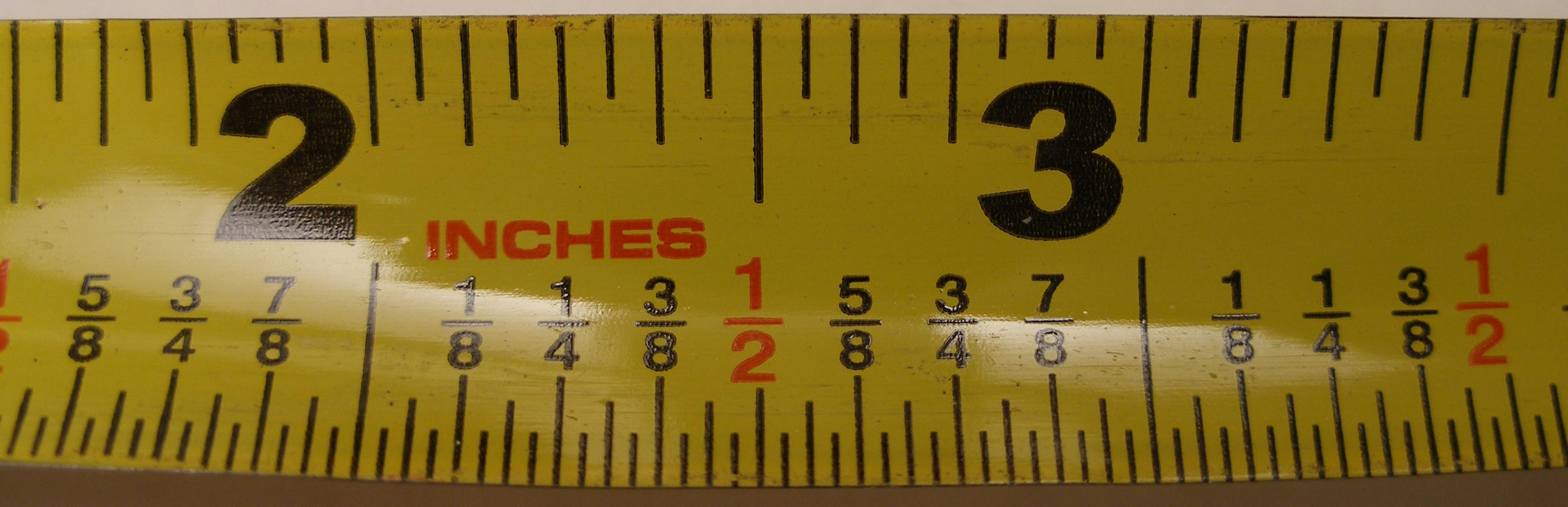 Picture of a common measuring tape in inches. It is divided into 1/32nd of an inch.